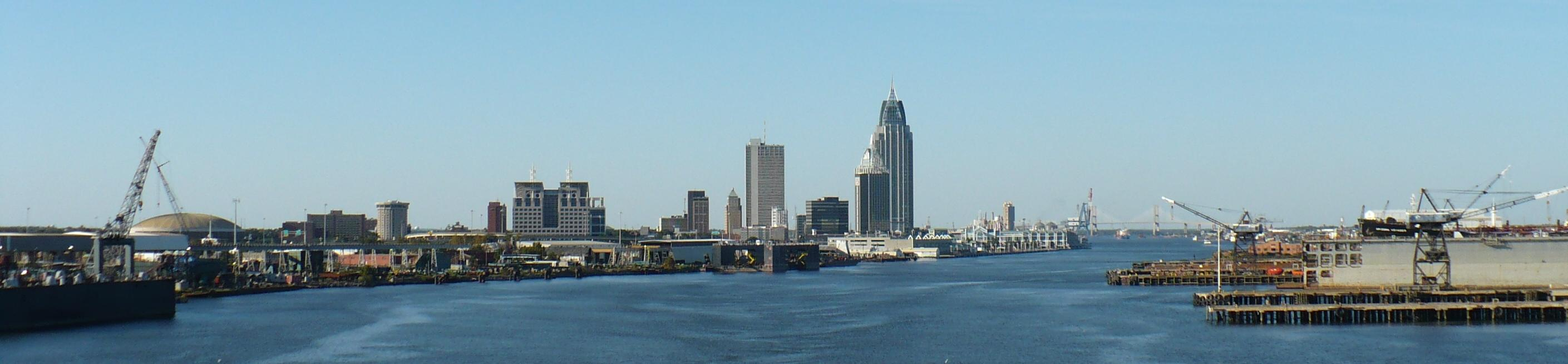 Panoramic view of downtown Mobile, Alabama, looking north up the Mobile River. Taken from onboard the MS Holiday.